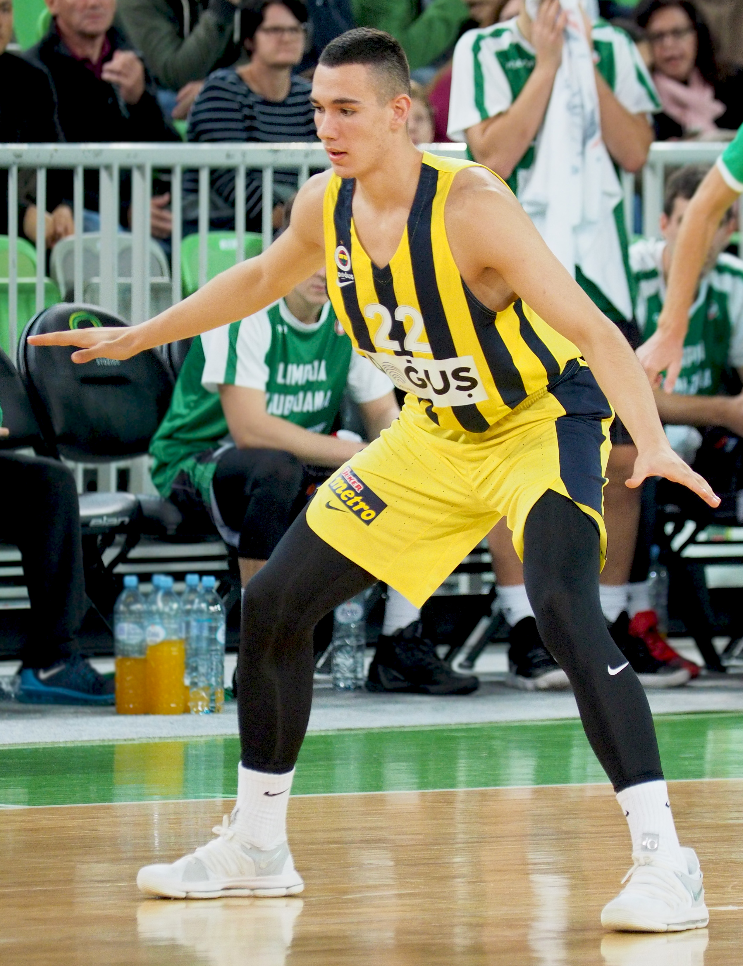 Yordan Minchev with Fenerbahçe BC, 2017 This photograph was taken with a Olympus E-M1.